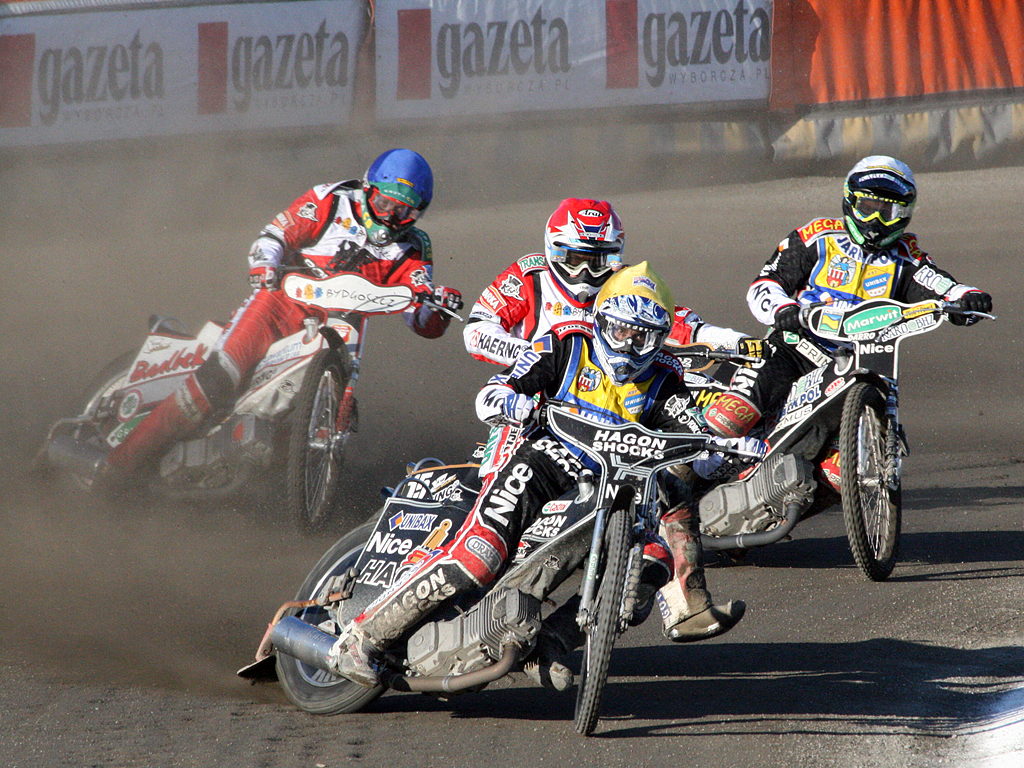 Speedway match in polish league between Polonia Bydgoszcz and Unibax Toruń (14th race, April 19, 2009). blue helmet - Tomasz Chrzanowski, red helmet - Emil Sayfutdinov, yellow helmet - Chris Holder, white helmet - Robert Kościecha.